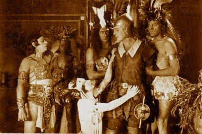 Left to right: Theodore Kosloff, Charley Rogers, Geraldine Farrar, and Wallace Reid (Spanish costume) in The Woman God Forgot (1917).